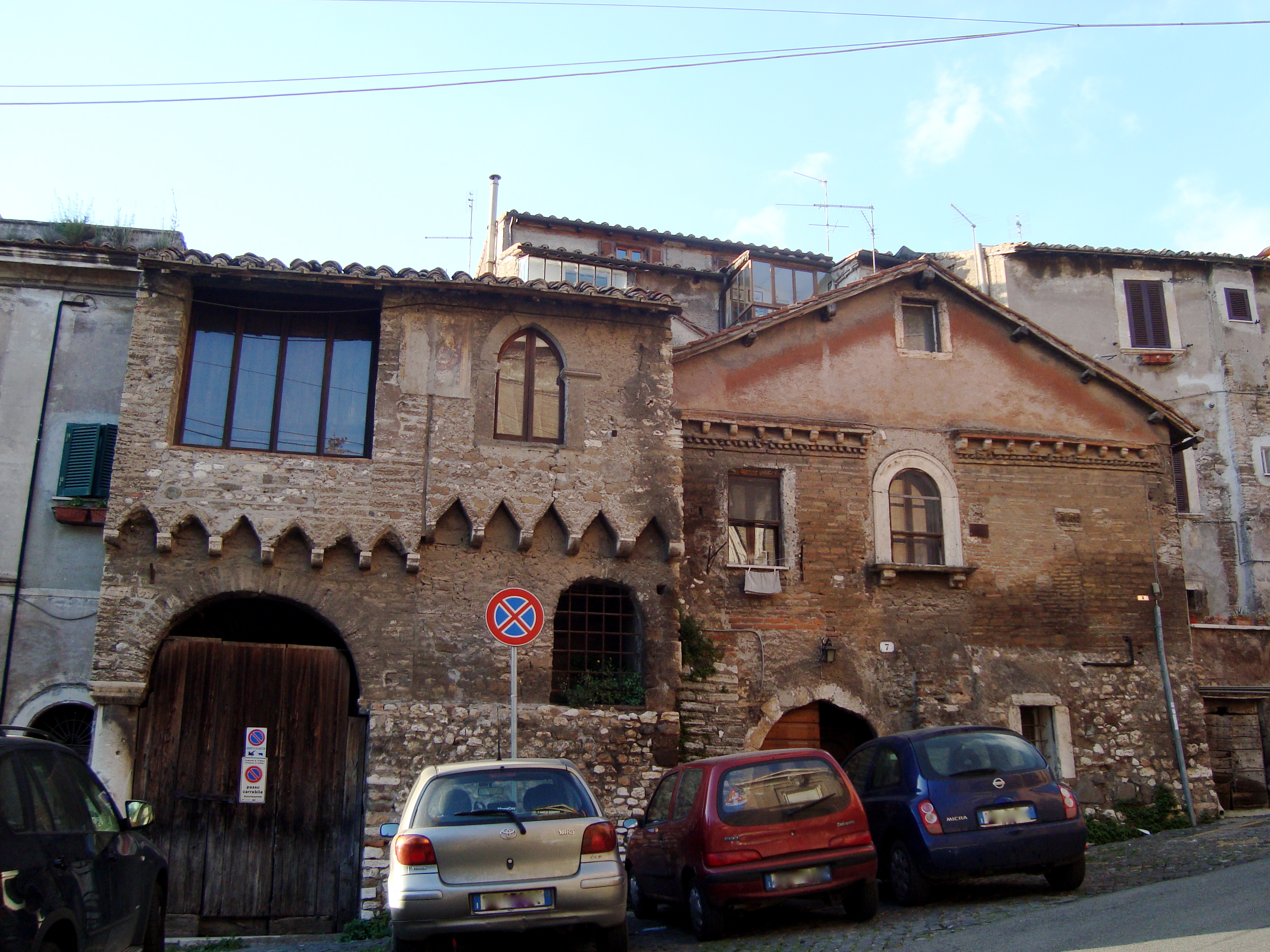 Midieval houses (12th-13th centuries) in Tivoli